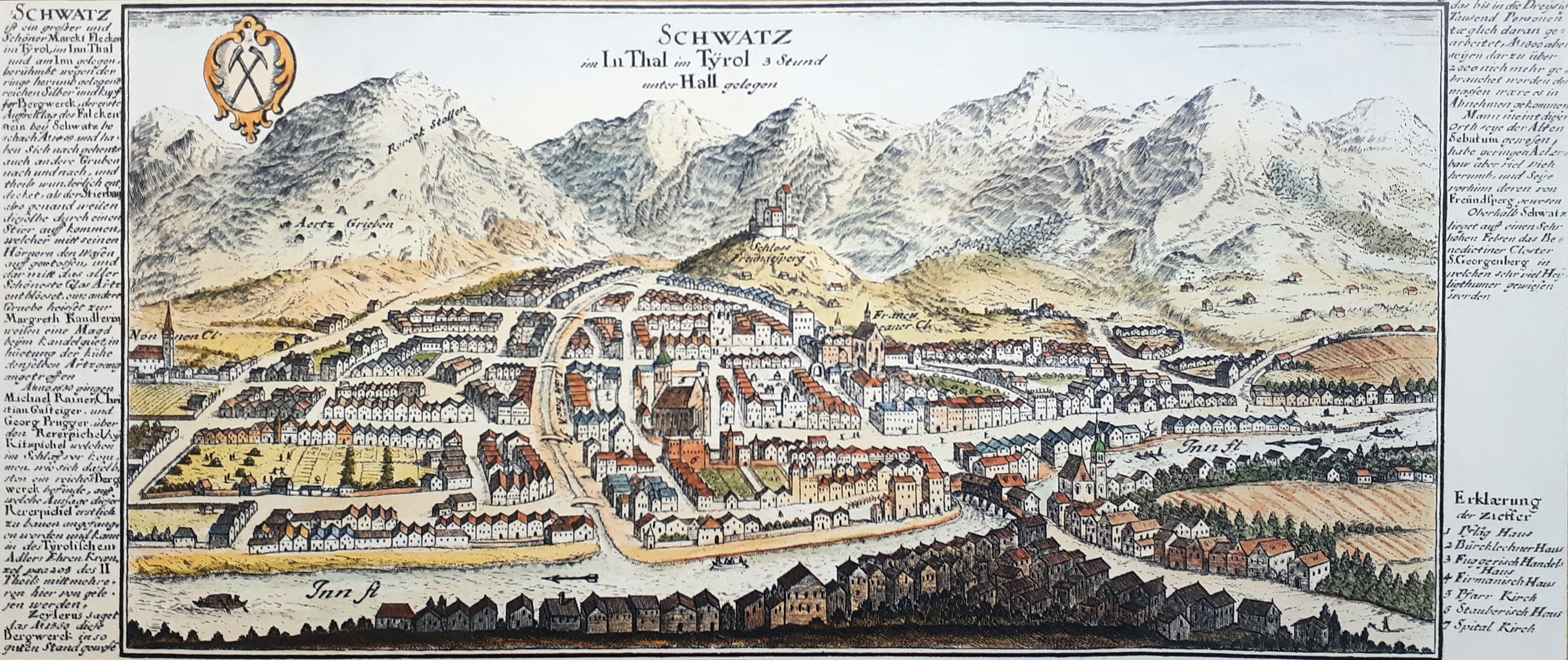 Colorised copperplate engraving of Schwaz city by Matthaeus Merian, Frankfurt am Main 1649